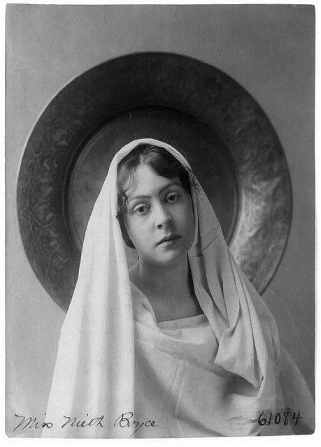 Novelist and playwright Neith Boyce (1872-1951) c.1900